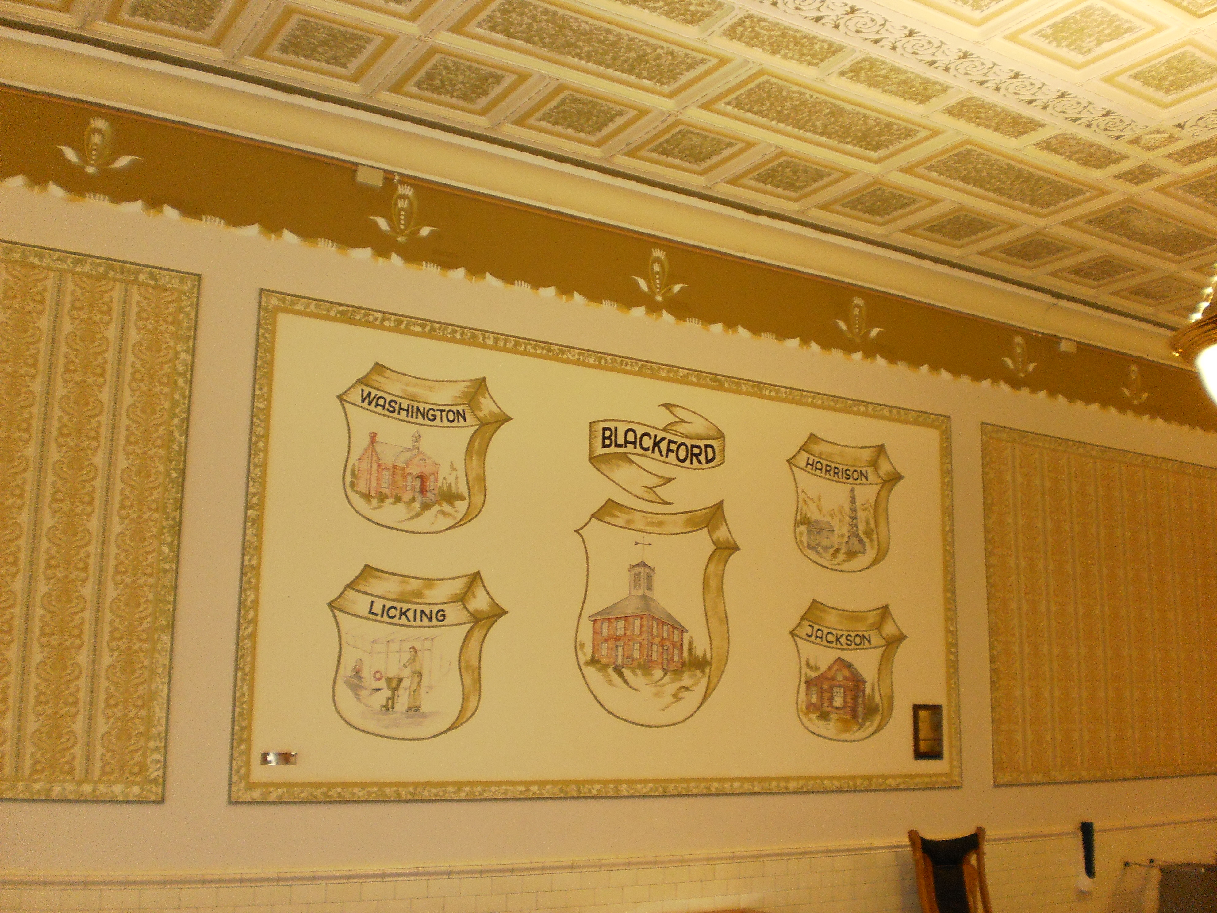 Inside of Blackford County courthouse in Hartford City, Indiana, USA. Painting on wall shows original courthouse and lists all four townships.